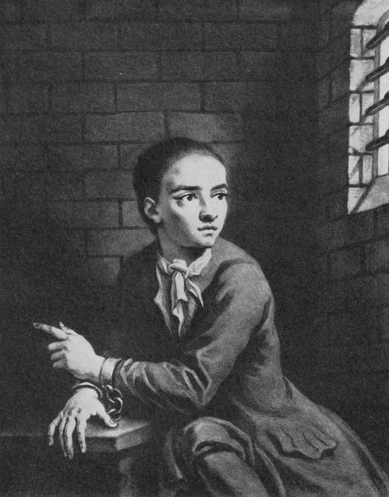 Jack Sheppard, 1728: an engraving by George White, based on the painting by James Thornhill made while the subject awaited execution in Newgate Prison. Sheppard points to the door, to another daring escape.